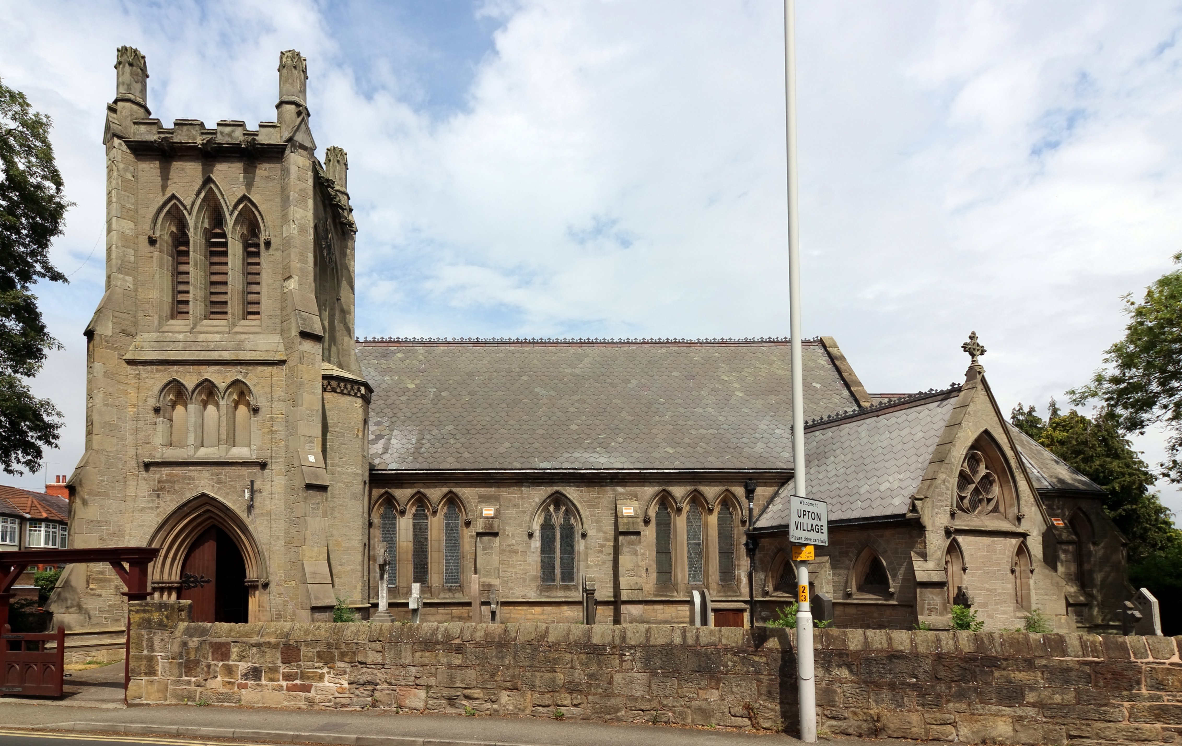 St Mary's church viewed across Ford Road. Grade II listed and in Decorated style, dating to 1868.